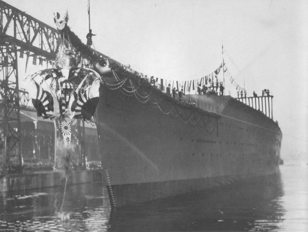 Launching japanese aircraft carrier Soryu. Kure, 23 december 1935.